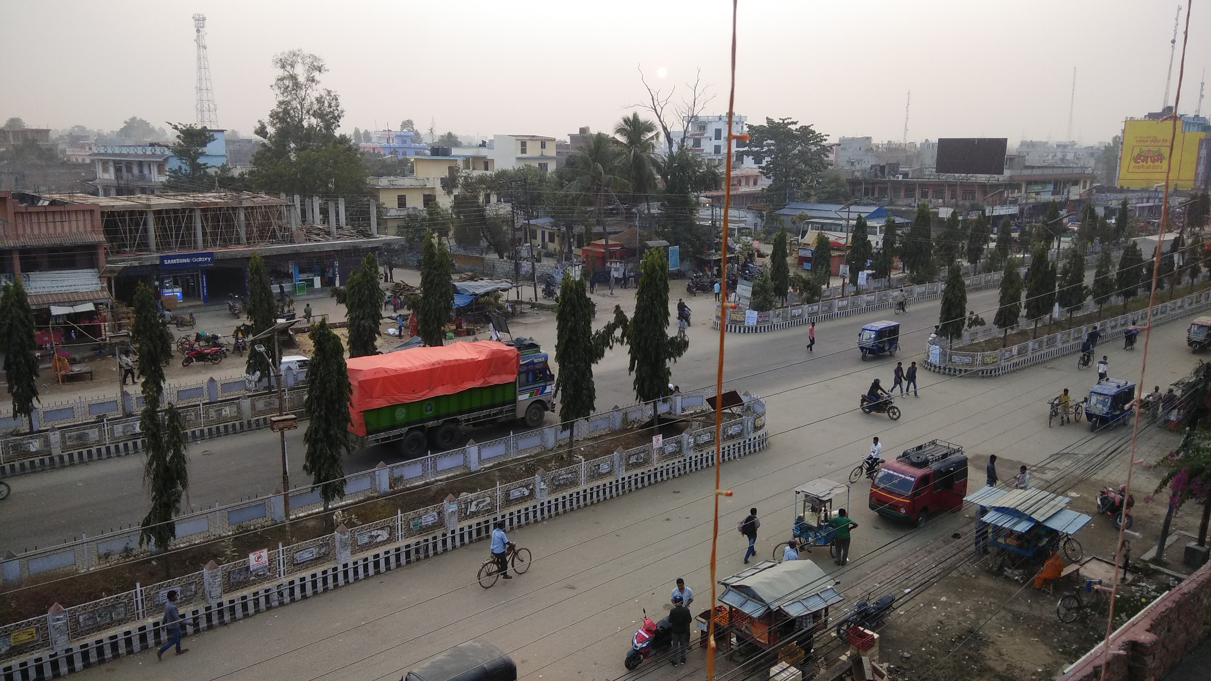 The Mahendra Rajmarg (Highway) passing through Lahan, Nepal